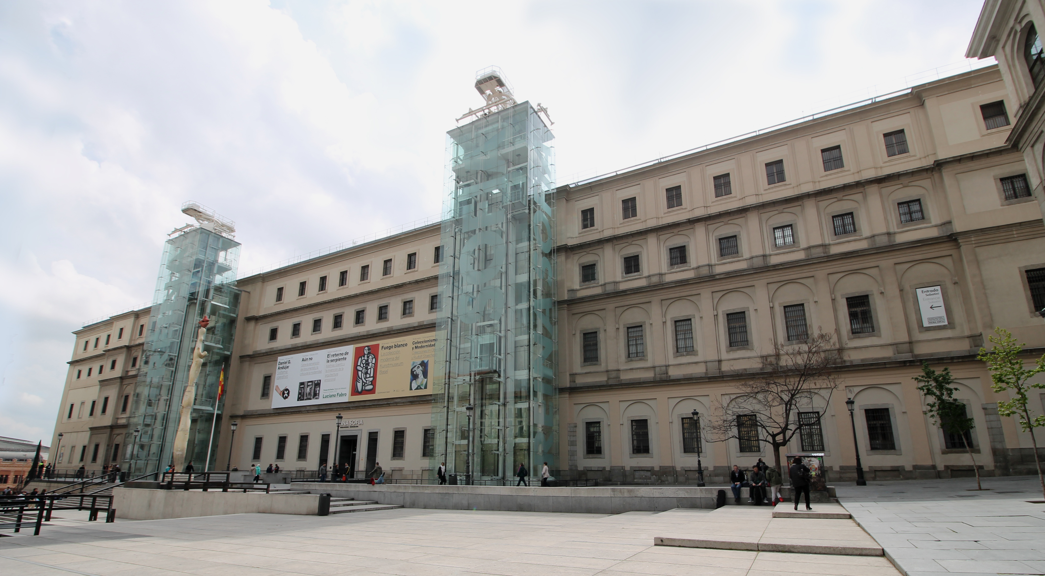 North-east façade of Queen Sofia Museum (MNCARS) in Madrid (Spain).